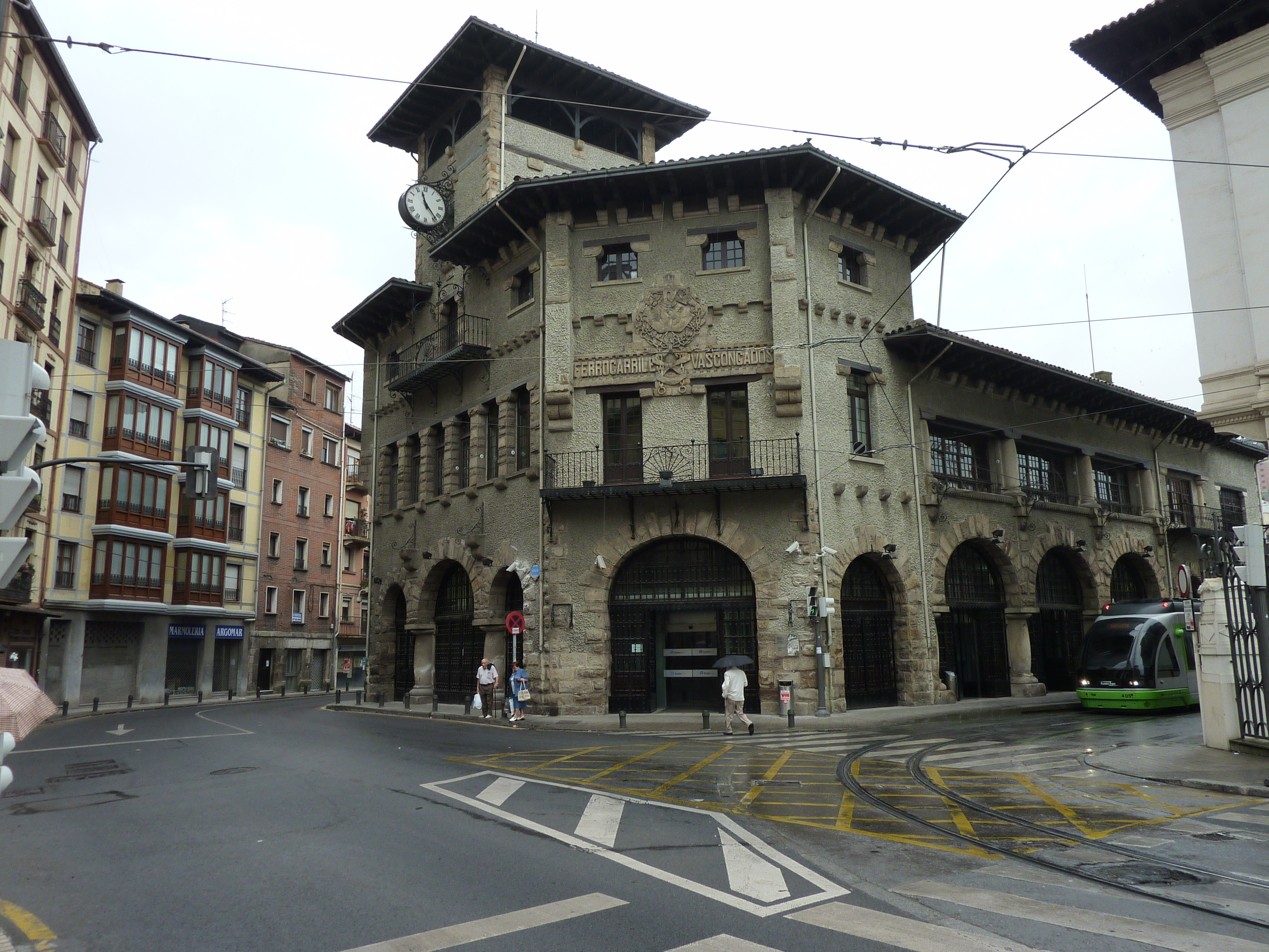 Terminus railway station Bilbao Atxuri (Eusko Tren) in the Basque Country, Spain